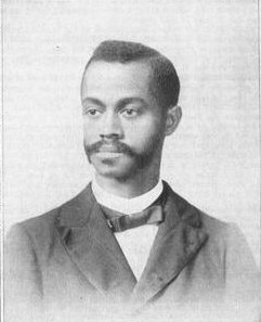 Charles Henry Turner